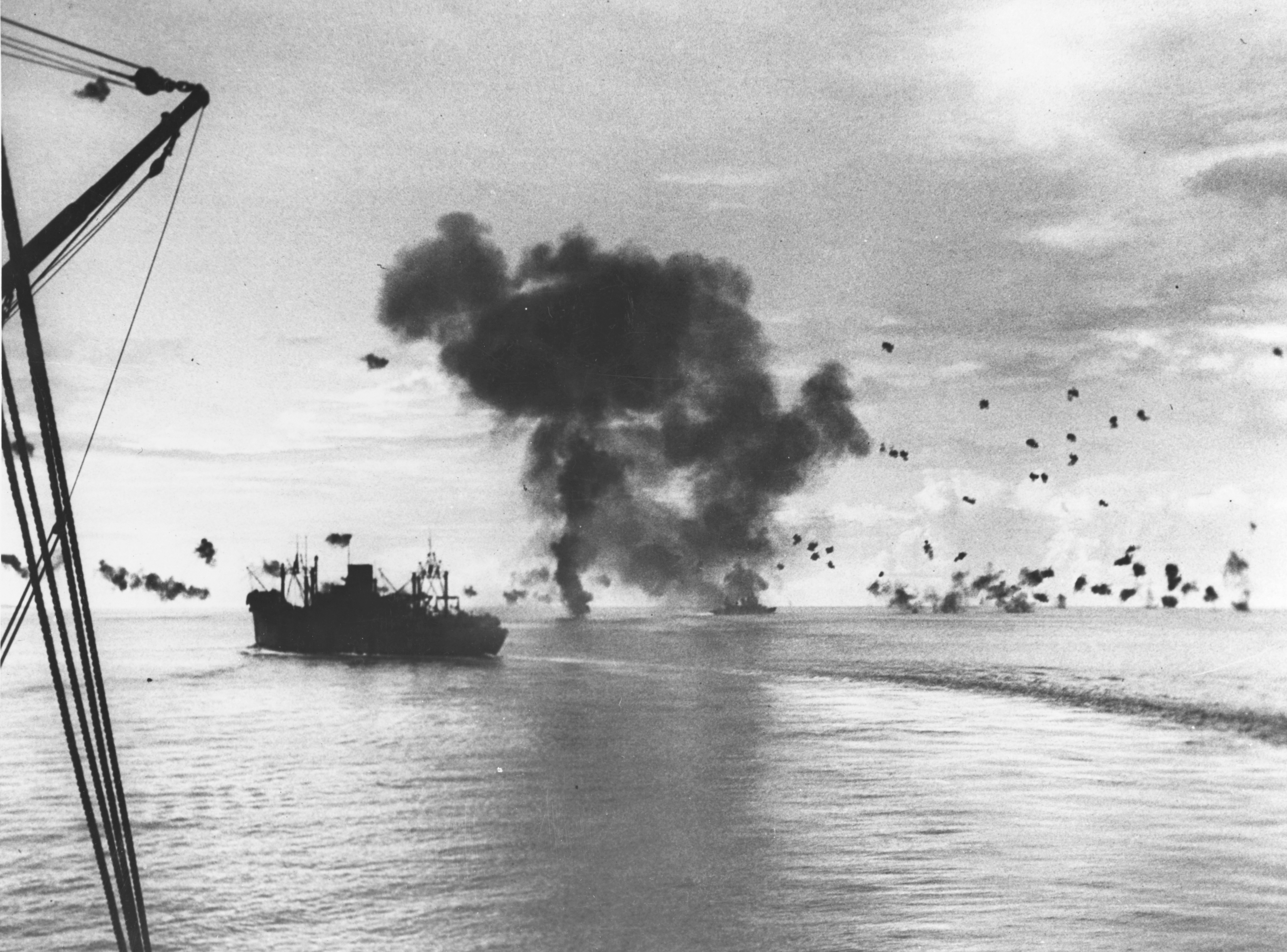 Naval Battle of Guadalcanal, 12-15 November 1942: the U.S. Navy troop transport USS President Jackson (AP-37) is maneuvering under Japanese air attack off Guadalcanal, 12 November 1942. In the center background is smoke from an enemy plane that had just crashed into the after superstructure of the heavy cruiser USS San Francisco (CA-38), which is steaming away in the right center. Note the anti-aircraft shell bursts.